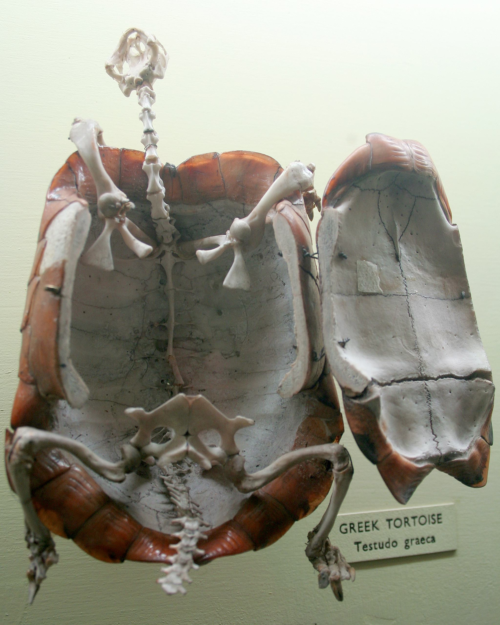 A preserved turtle showing how the skeleton fits inside its carapace, at the Horniman Museum.